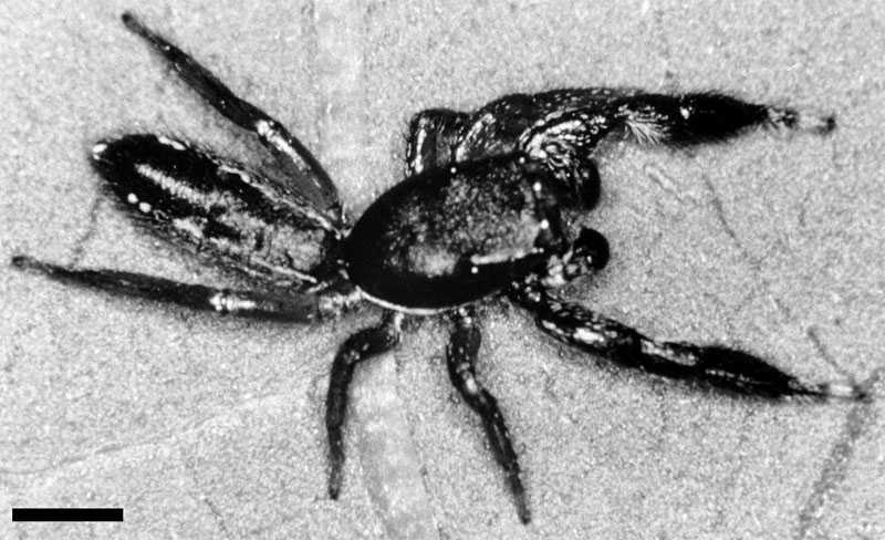 Male Metacyrba floridana jumping spider from Martin County, Florida, USA